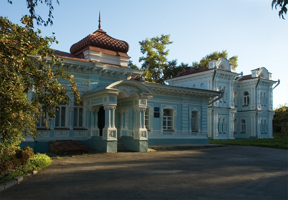 Karim-Bay Palace in Tomsk